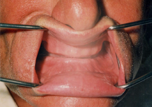 Edentulism